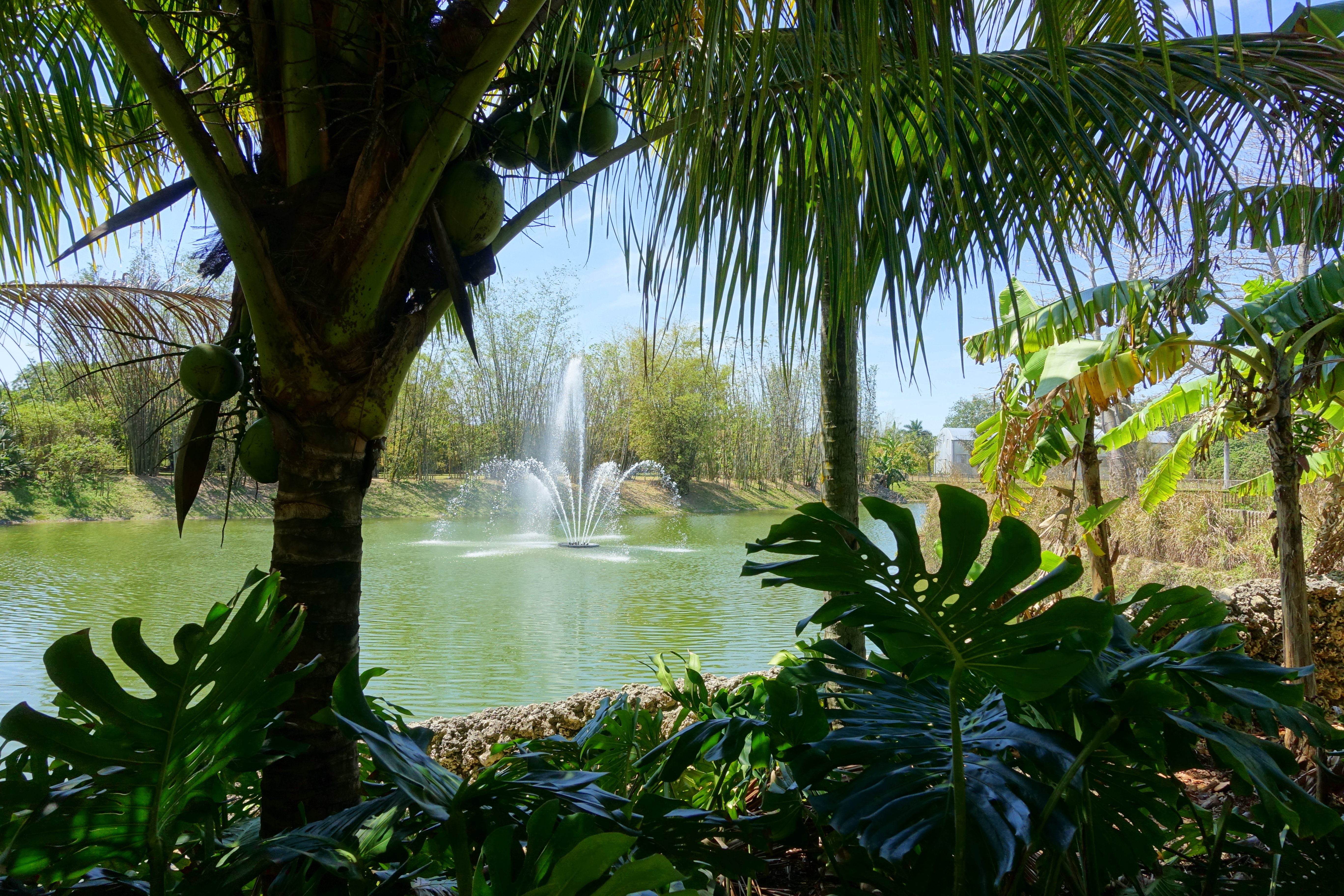 Fruit and Spice Park - Homestead, Florida, USA.